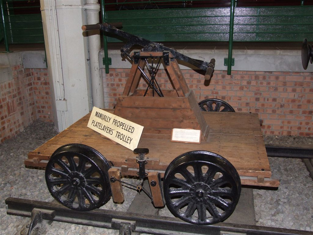 Man powered locomotive or a platelayers pump trolley.